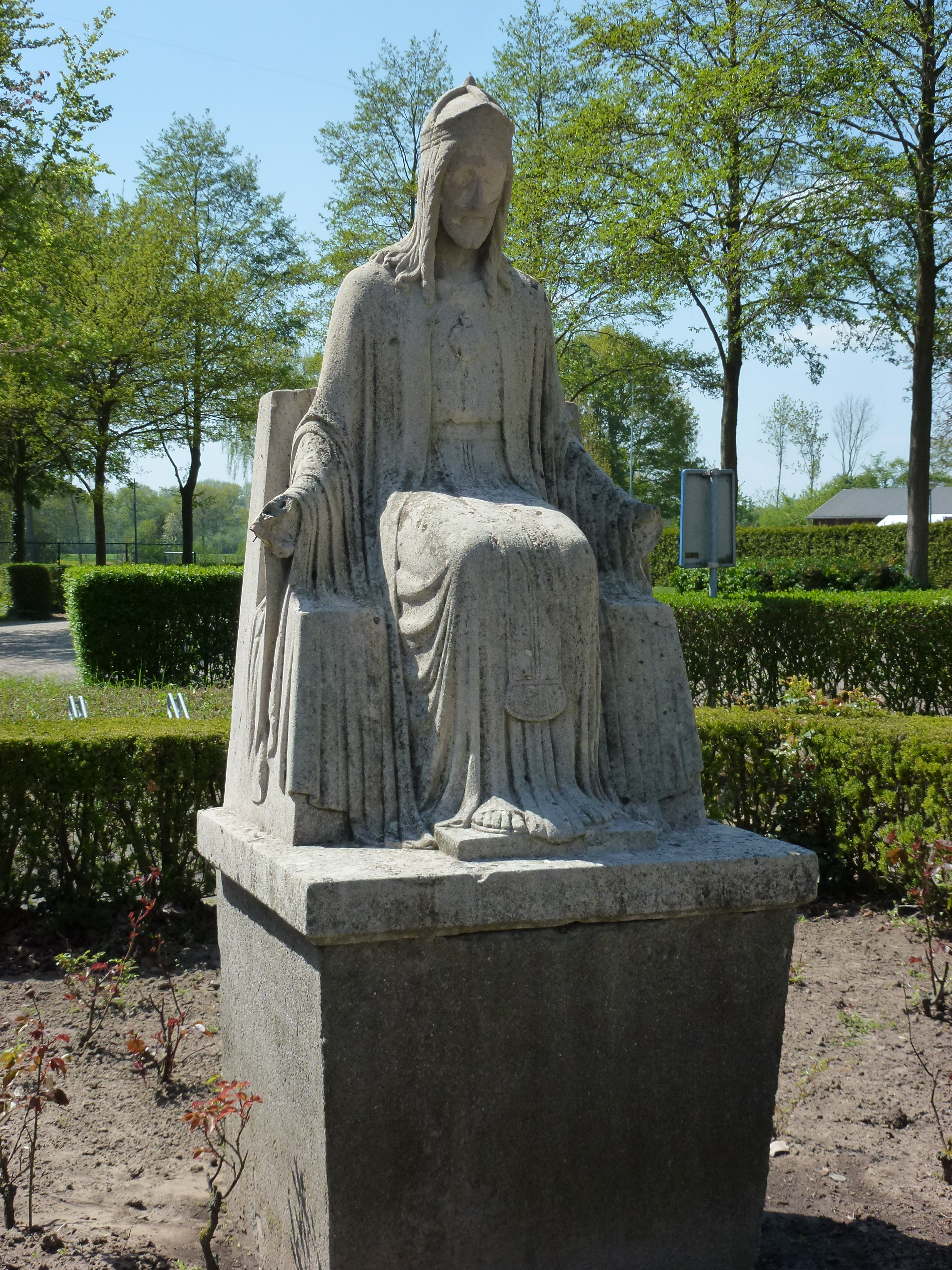 Posterholt (Roerdalen) H.Hartbeeld, zittend